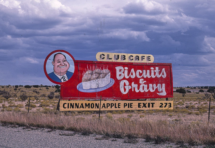 Margolies, John,, photographer. Club Cafe sign near Santa Rosa, Santa Rosa, New Mexico 1987. 1 photograph : color transparency ; 35 mm (slide format). Notes: Title, date and keywords based on information provided by the photographer. Margolies category: Food. Please use digital image: original slide is kept in cold storage for preservation. Credit line: John Margolies Roadside America photograph archive (1972-2008), Library of Congress, Prints and Photographs Division. Purchase; John Margolies 2015 (DLC/PP-2015:142). Forms part of: John Margolies Roadside America photograph archive (1972-2008). Subjects: Cafes--1980-1990. Signs (Notices)--1980-1990. United States--New Mexico--Santa Rosa. Format: Slides--1980-1990.--Color For more information, see "John Margolies Roadside America Photograph Archive - Rights and Restrictions Information" Repository: Library of Congress, Prints and Photographs Division, Washington, D.C. 20540 USA, Part Of: Margolies, John John Margolies Roadside America photograph archive (DLC) 2010650110 General information about the John Margolies Roadside America photograph archive is available at Higher resolution image is available (Persistent URL): Call Number: LC-MA05- 7572